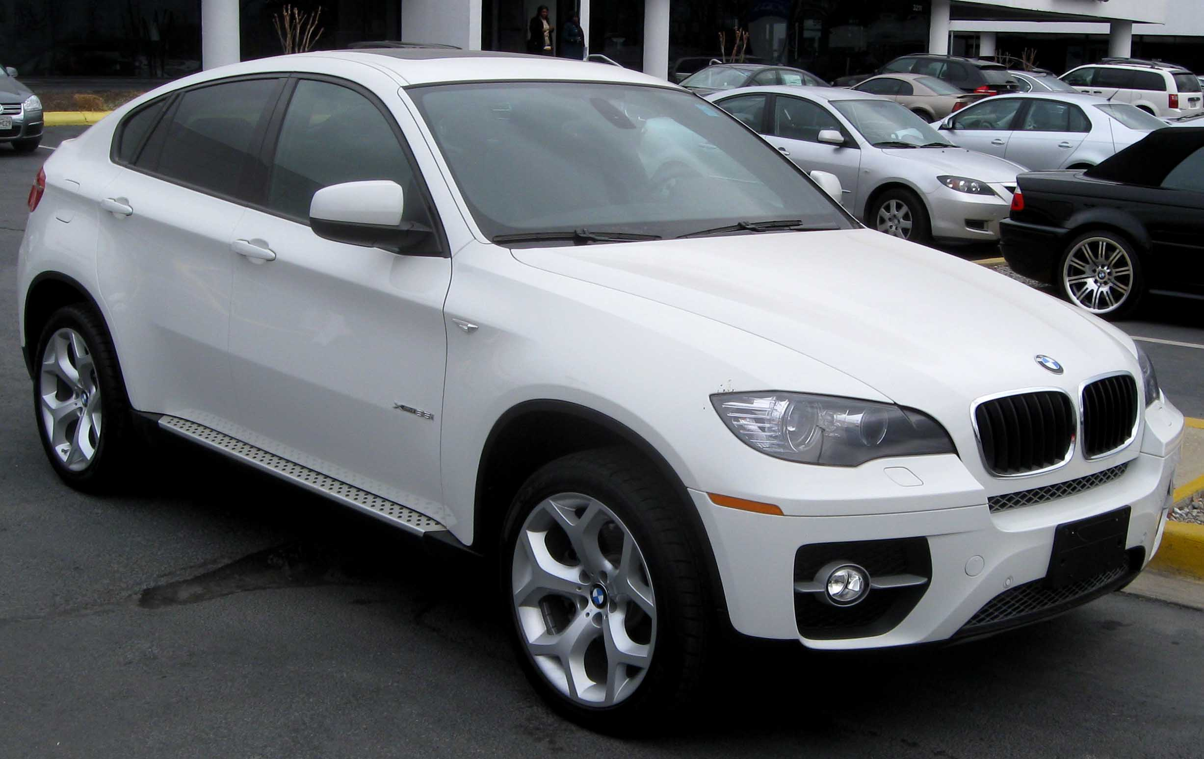 2009 BMW X6 photographed in Silver Spring, Maryland, USA.